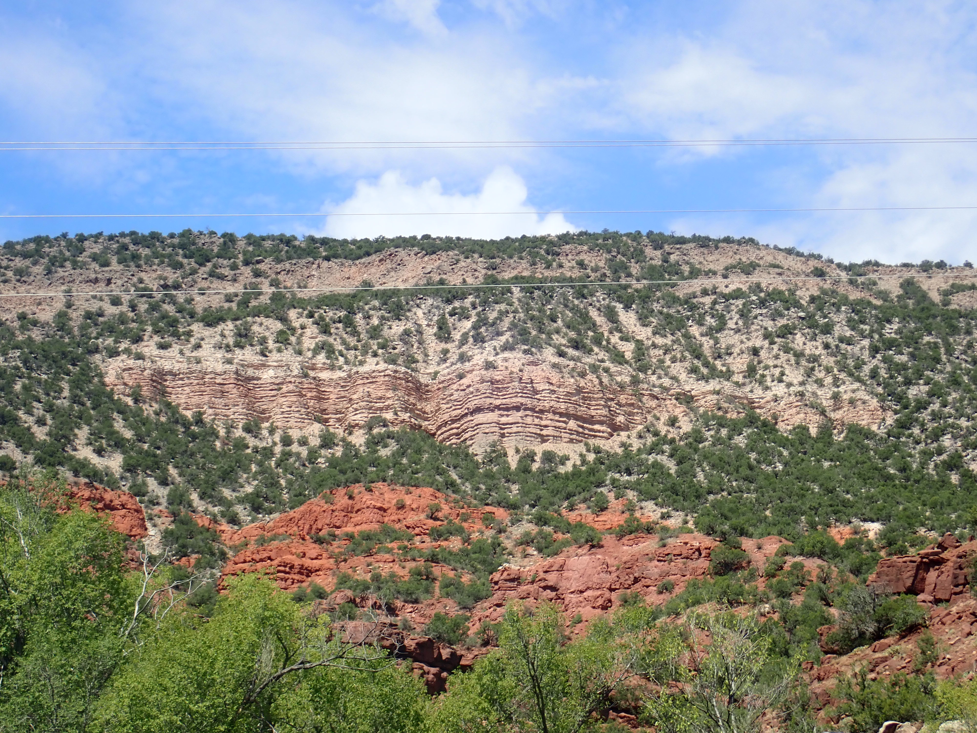 This images shows thin beds of the Gilman Conglomerate exposed in the hills behind Gilman, New Mexico, USA. The Gilman Conglomerate is presumably Oligocene based on the ages of the youngest clasts in the conglomerate. It is sometimes regarded as a member of the Abiquiu Formation, but may have had its origin in a now-buried Oligocene vent in the southern Jemez or northern Santo Domingo Basin.